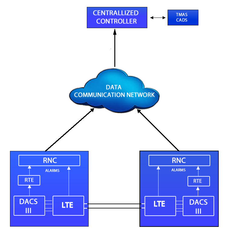 this file contains the architecture of at&ts FASTAR